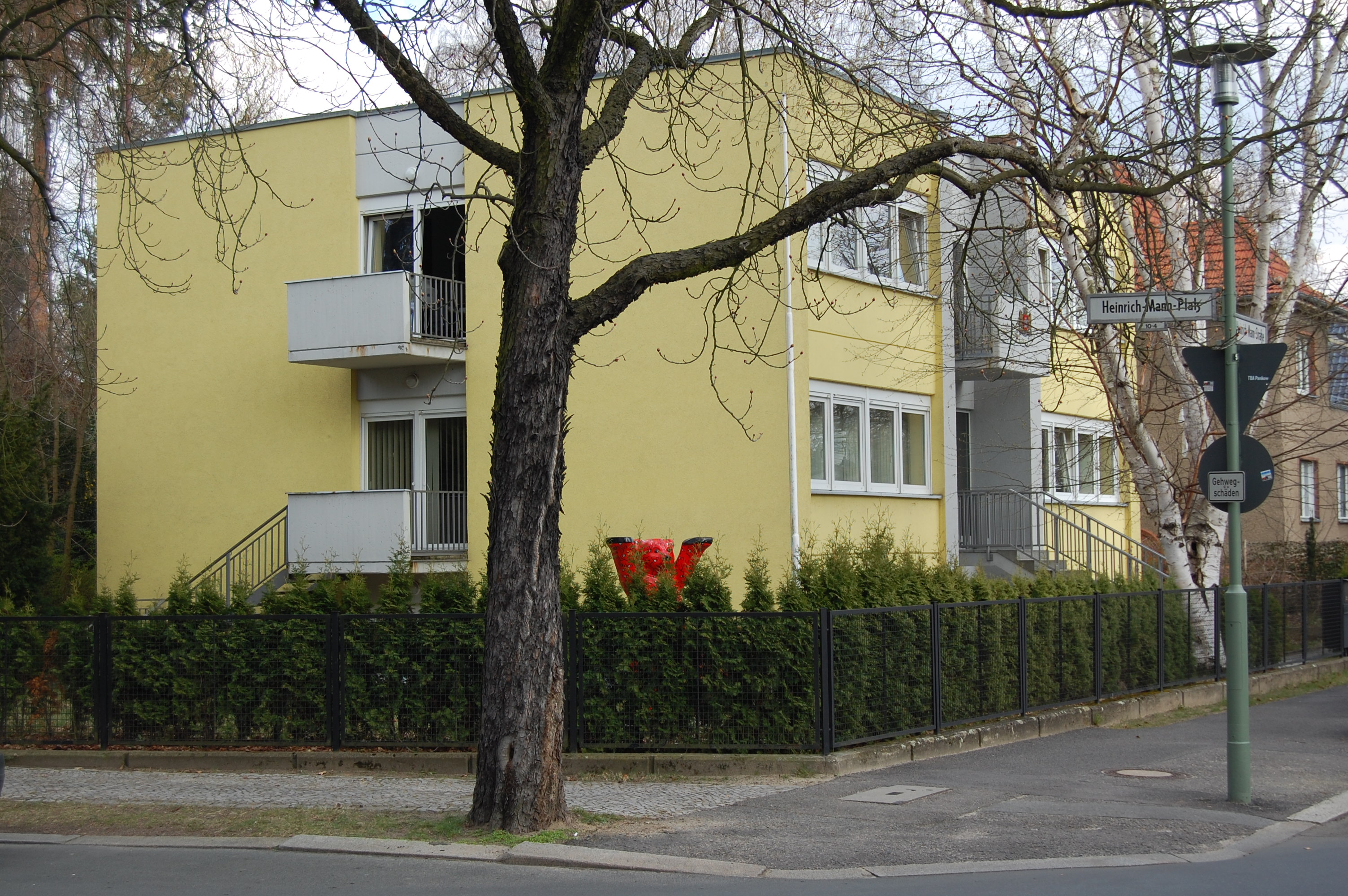 Embassy of Georgia in Berlin.